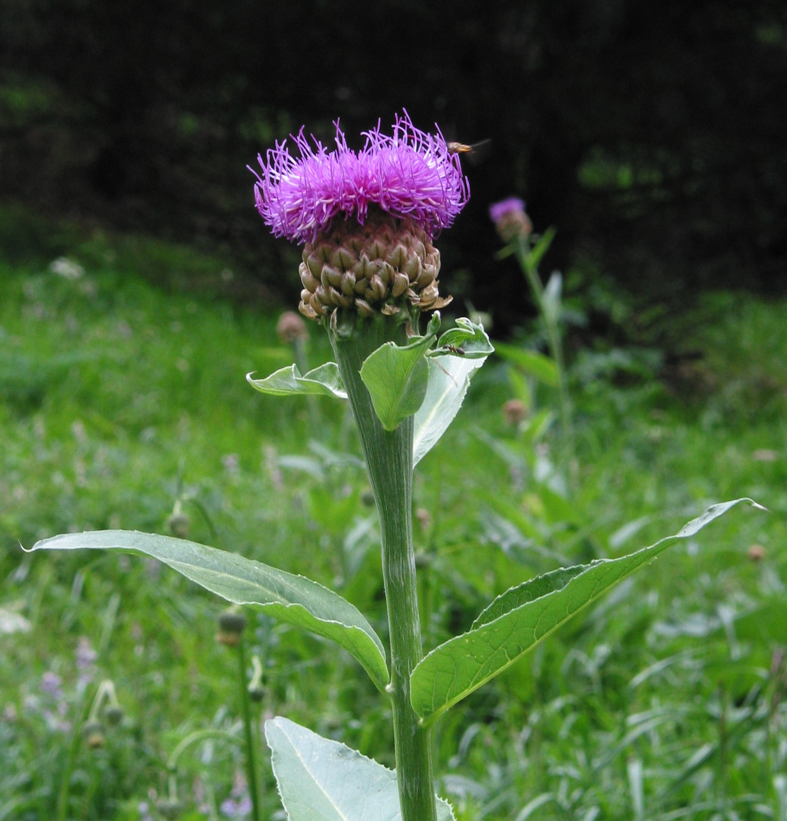 Giant scabiosa (Rhaponticum scariosum) between Motta Naluns and Scuol, Lower Engadine, Switzerland